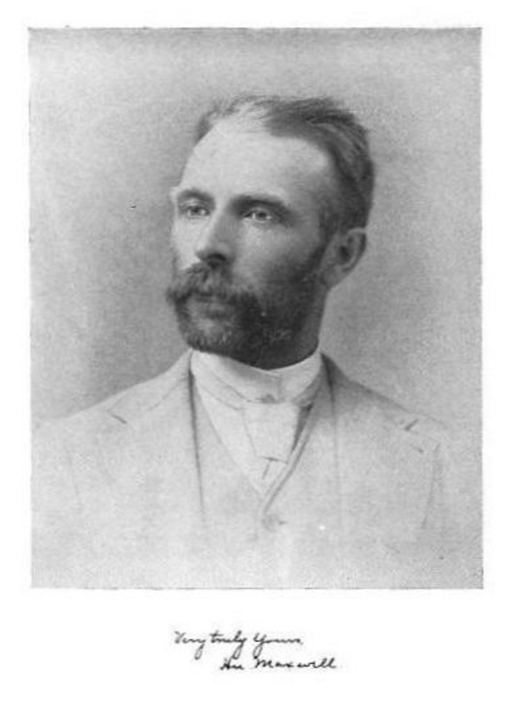 Hu Maxwell (born September 22, 1860, Saint George, Virginia (now West Virginia) - died 1927) was a local historian, novelist, editor, and author of several histories of West Virginia counties.